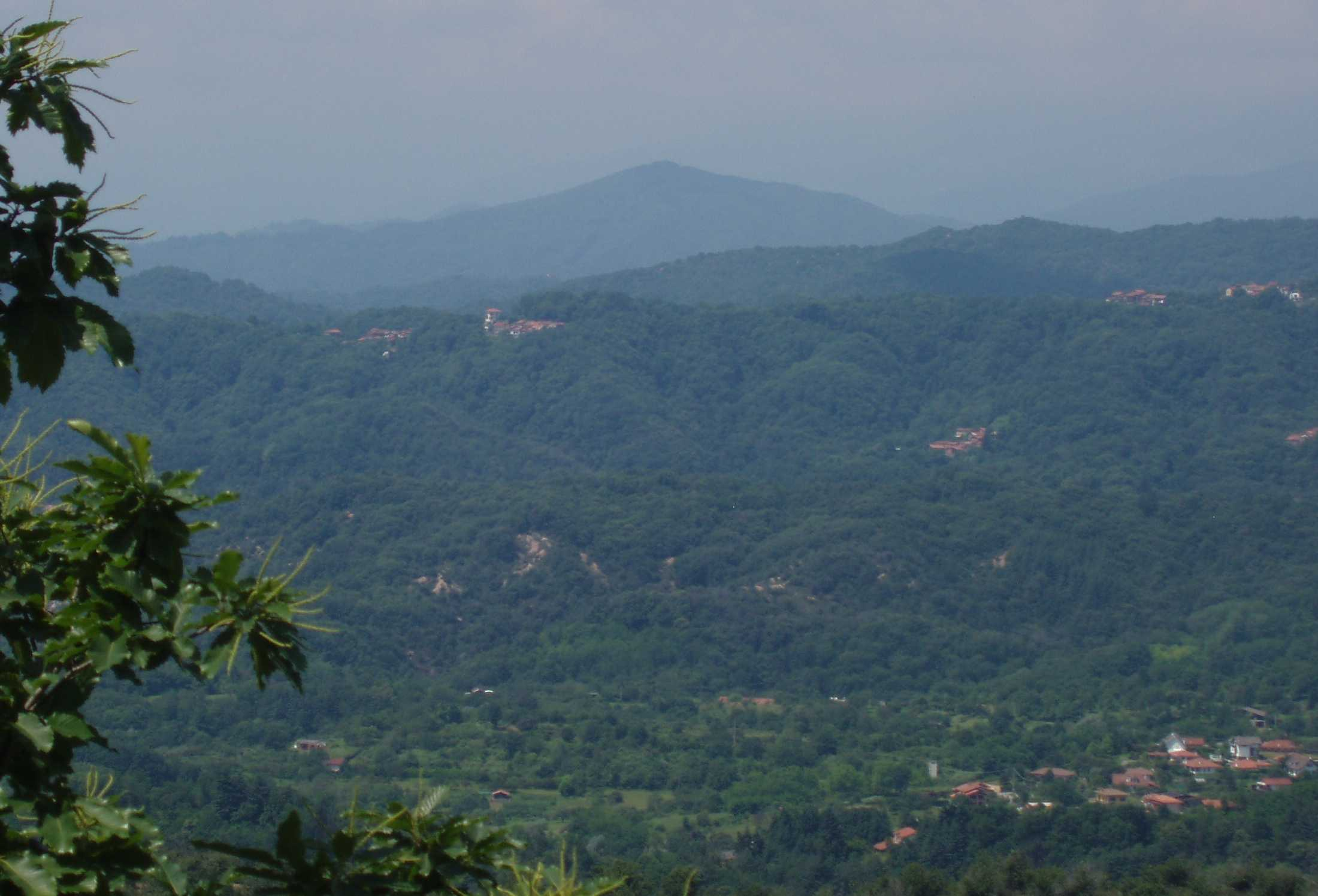 Mount Rovella from Sostegno hills (Italy, Piedmont)